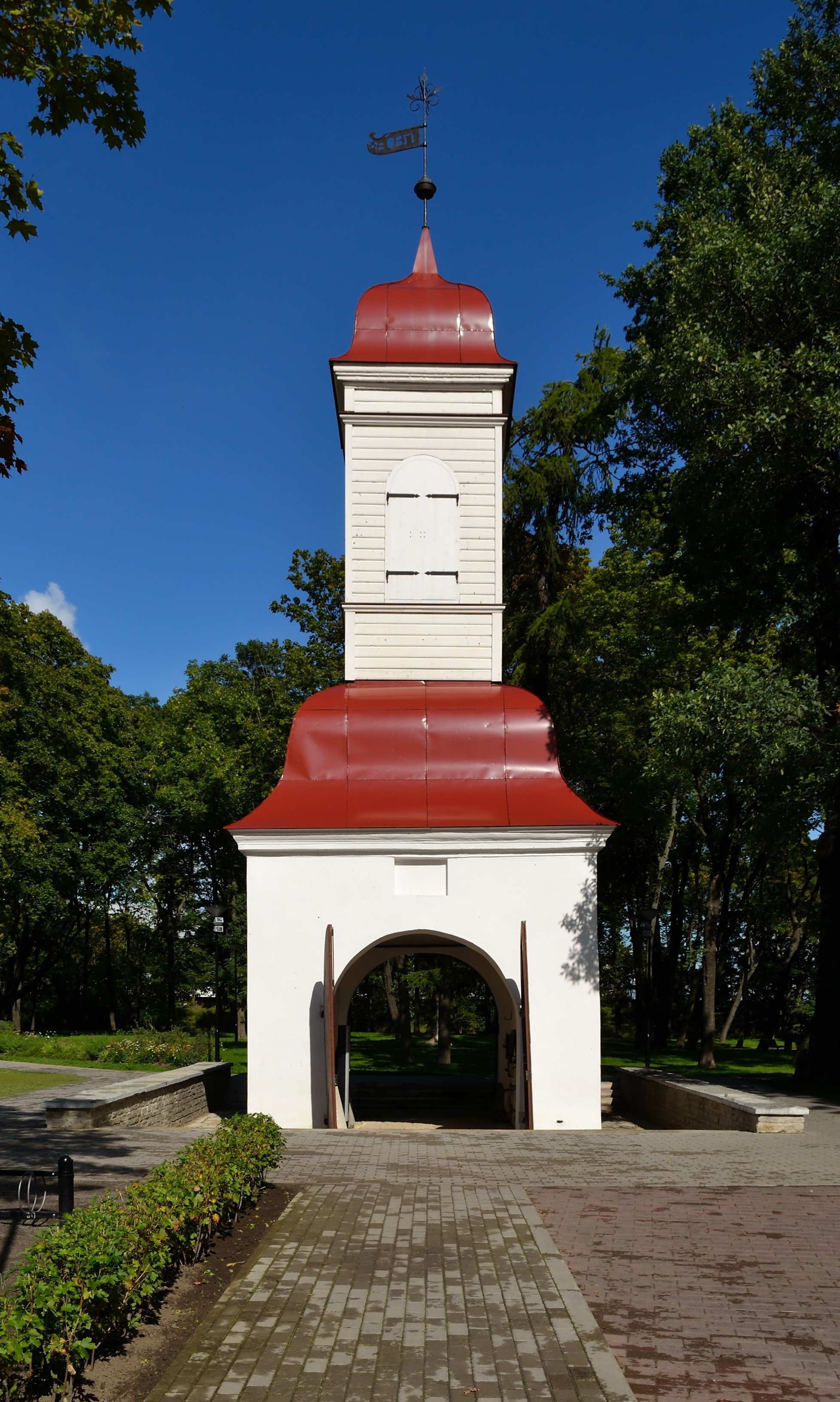 Tallinn, Kalamaja cemetery gate-bell tower, 1780 This photograph was taken with a Nikon D3100